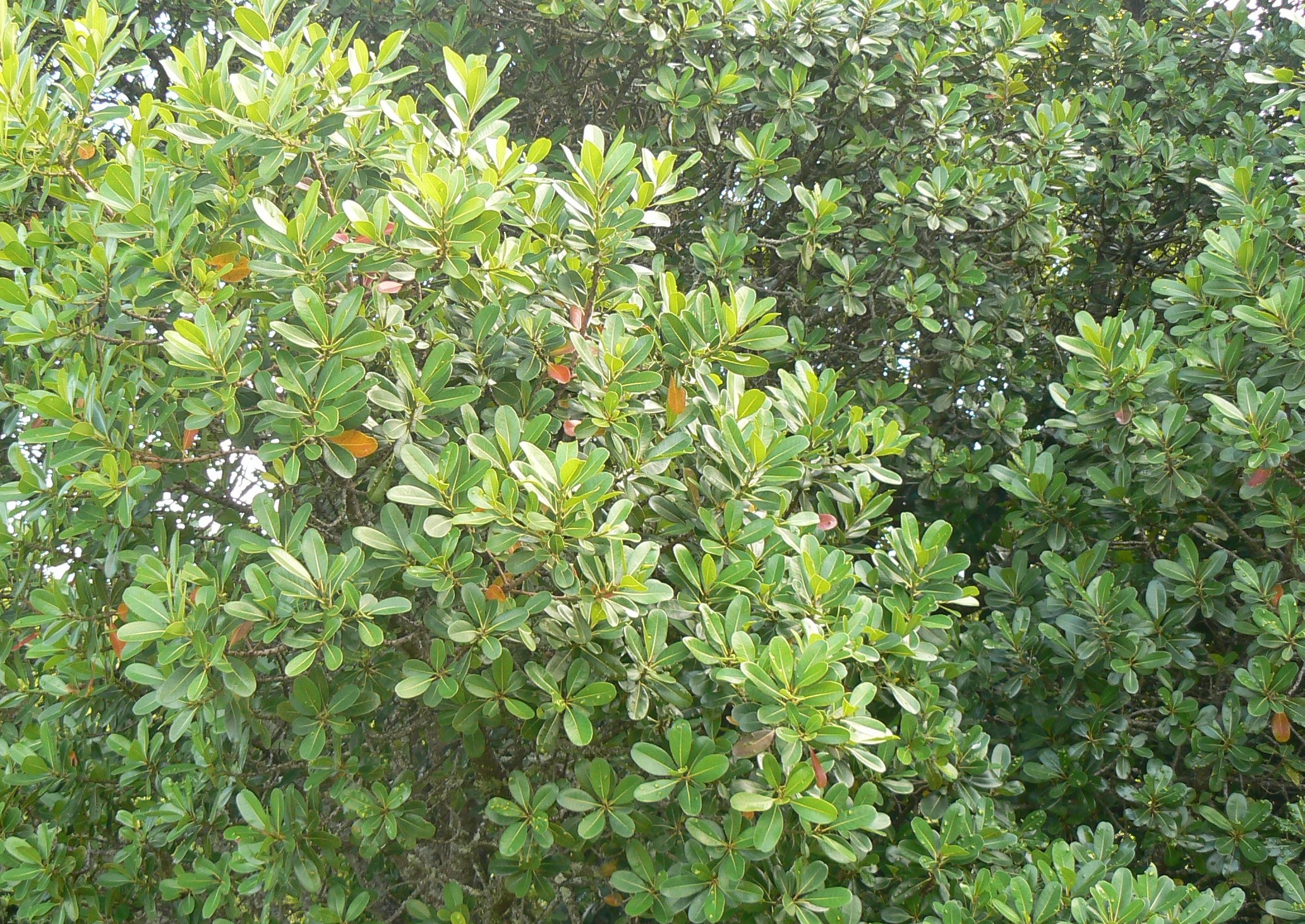 Detail of the foliage of the White Milkwood. Sideroxylon inerme. Cape Town.